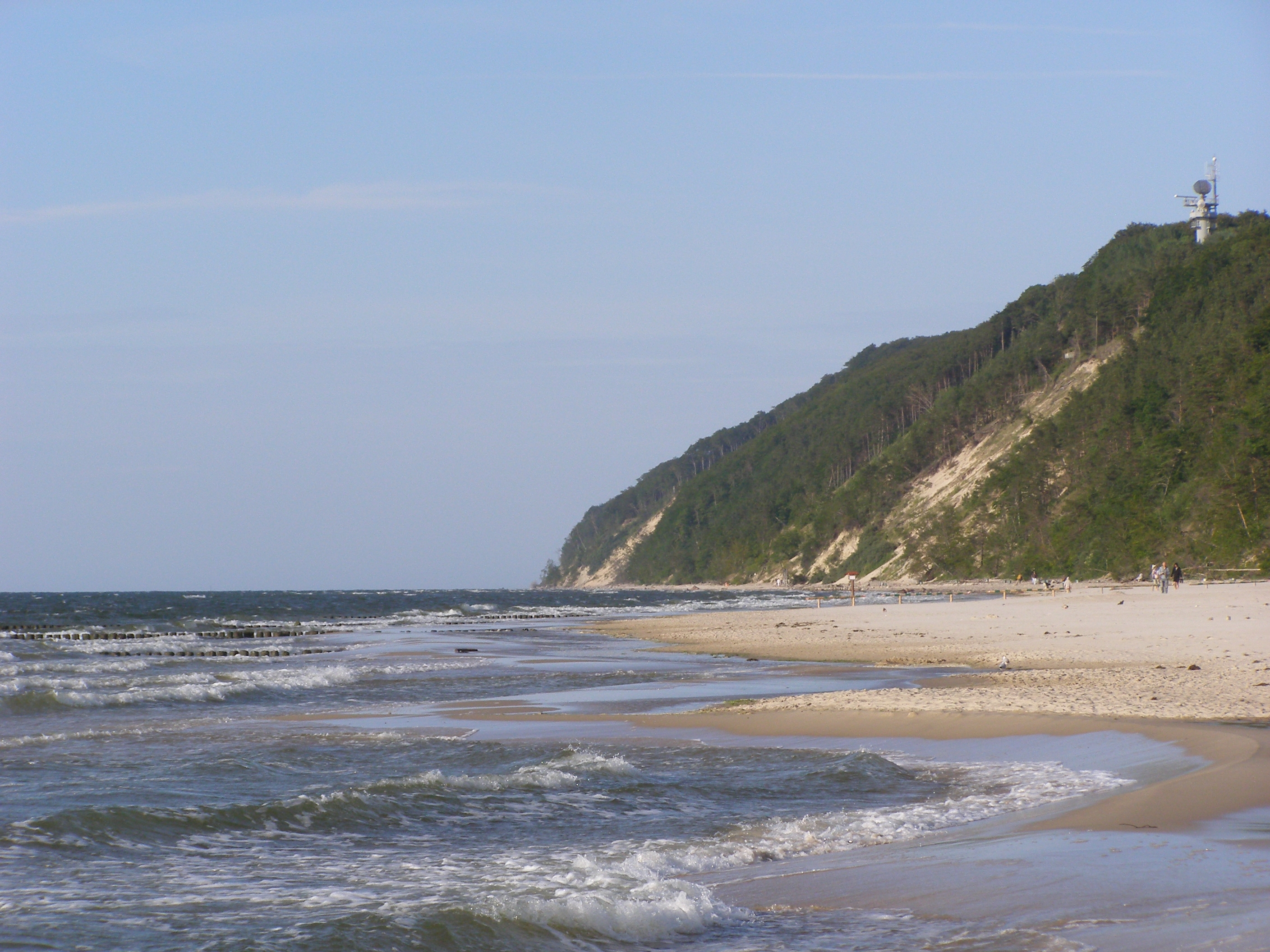 Międzyzdroje